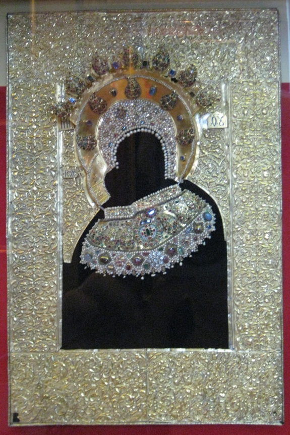 Riza of icon Our Lady Vladimirskaya. Риза иконы Владимирской Богоматери. ГИМ. Москва, Мастерские Московского кремля, 1686 г. Вклад царя Иоанна Алексеевича, Петра и царевны Софьи в Александровский Успенский Монастырь.